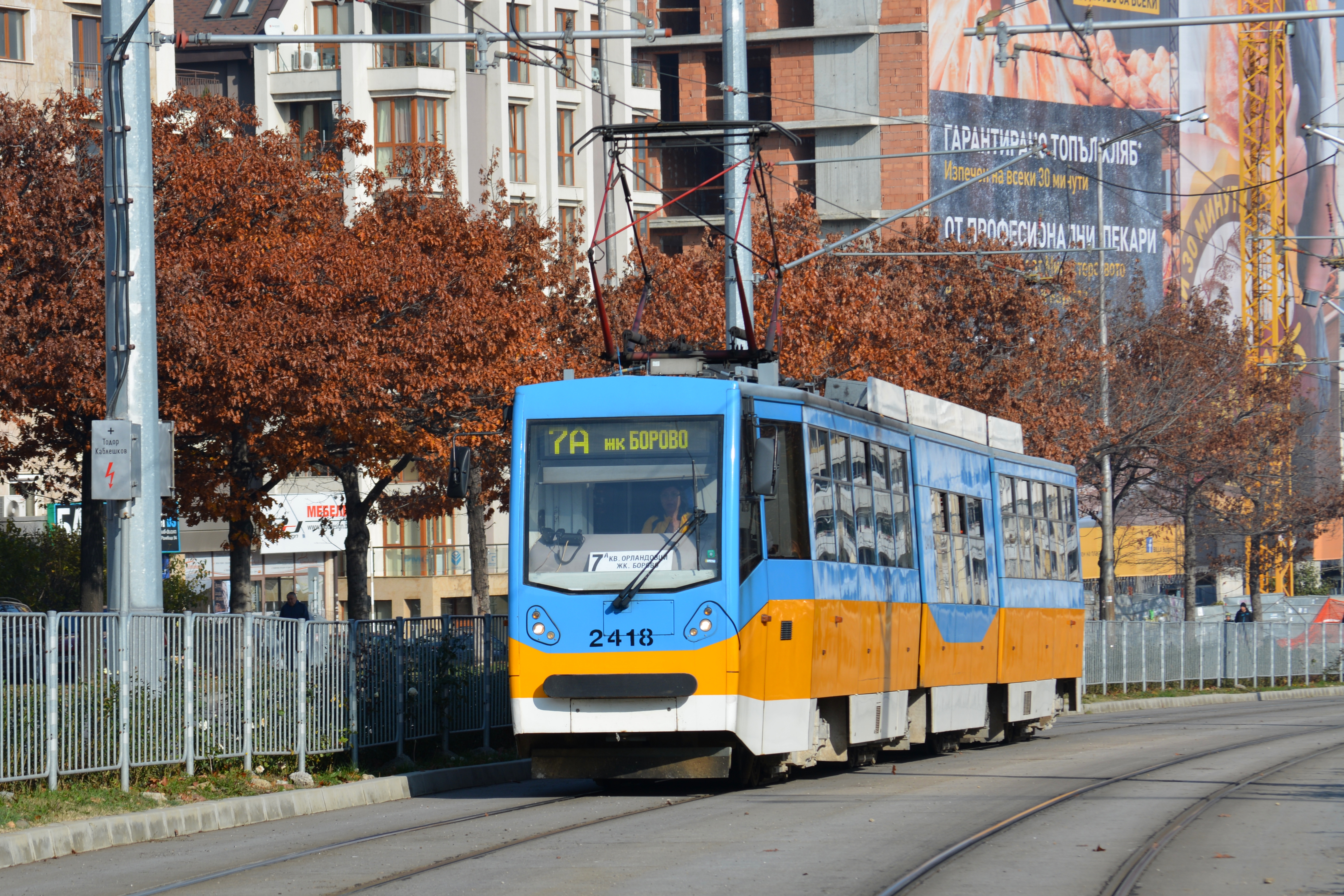 T8M 700-IT tram in Sofia on line 7A